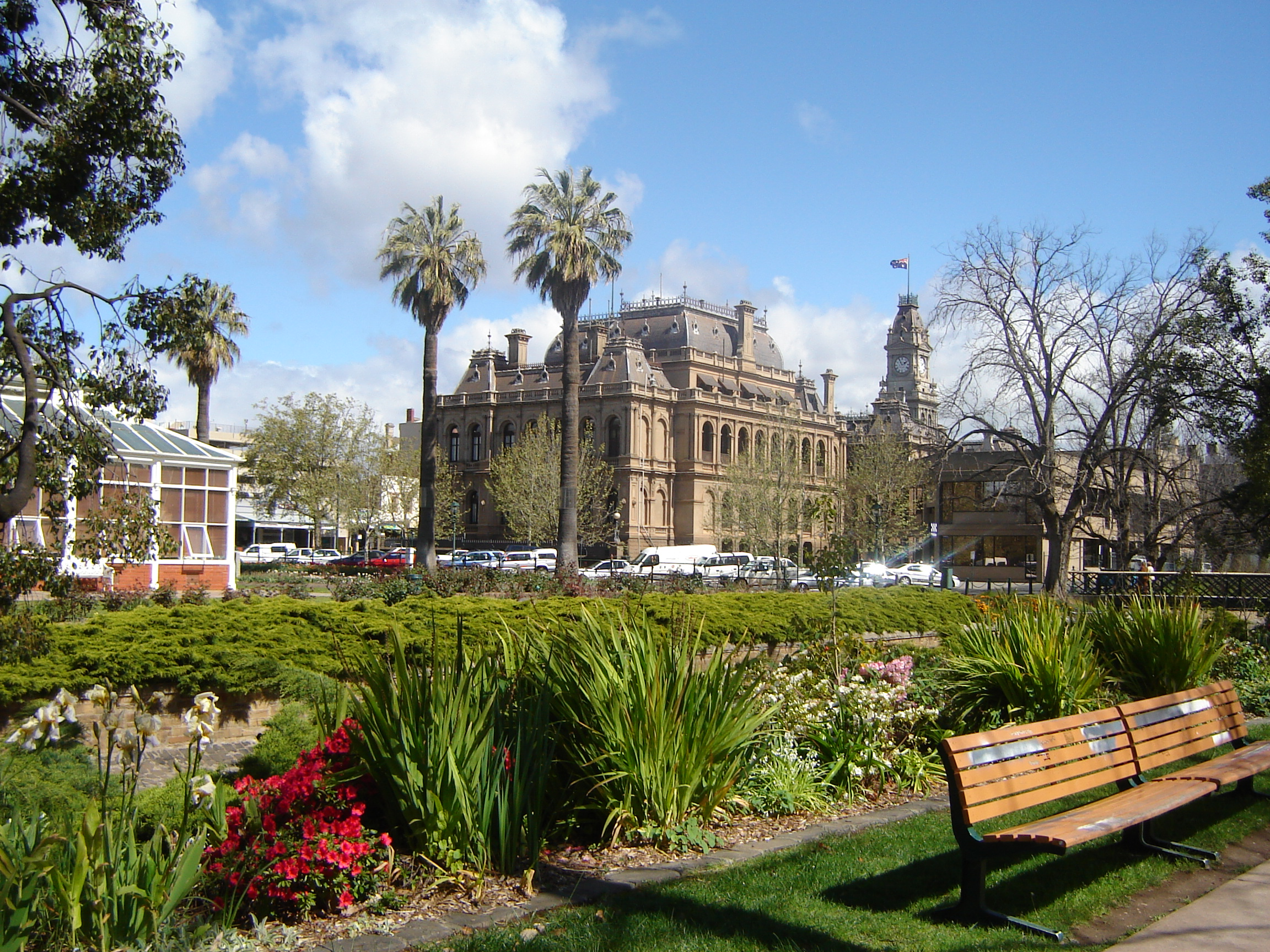 Bendigo Law Courts photographed from Rosalind Park on 10 October 2005.